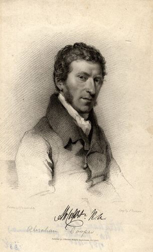 Abraham Cooper (1787–1868). Engraving by J. Tomson, after John Jackson stipple engraving, published 1827